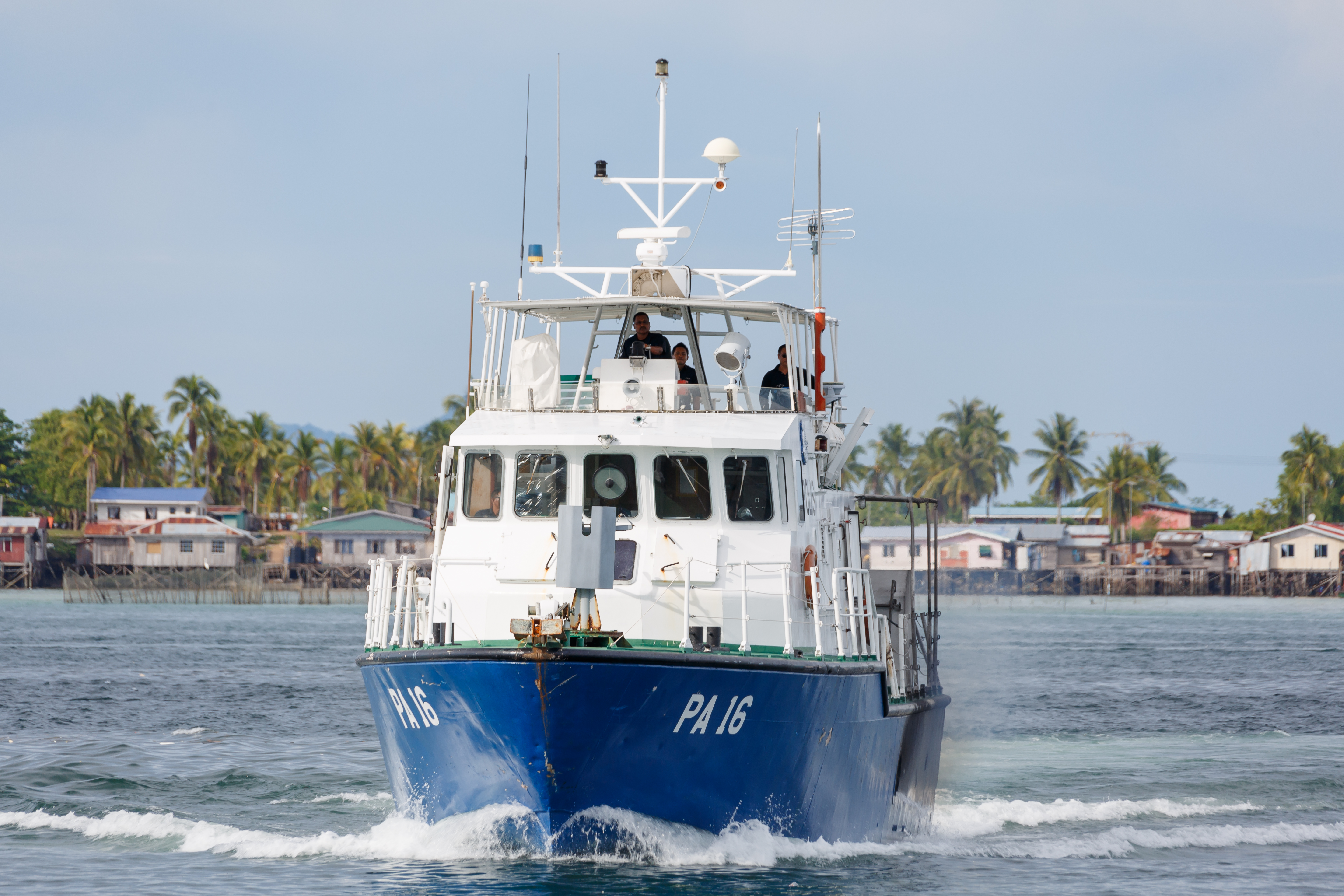 Semporna, Sabah: Police boat PA 16 operating in Semporna harbour